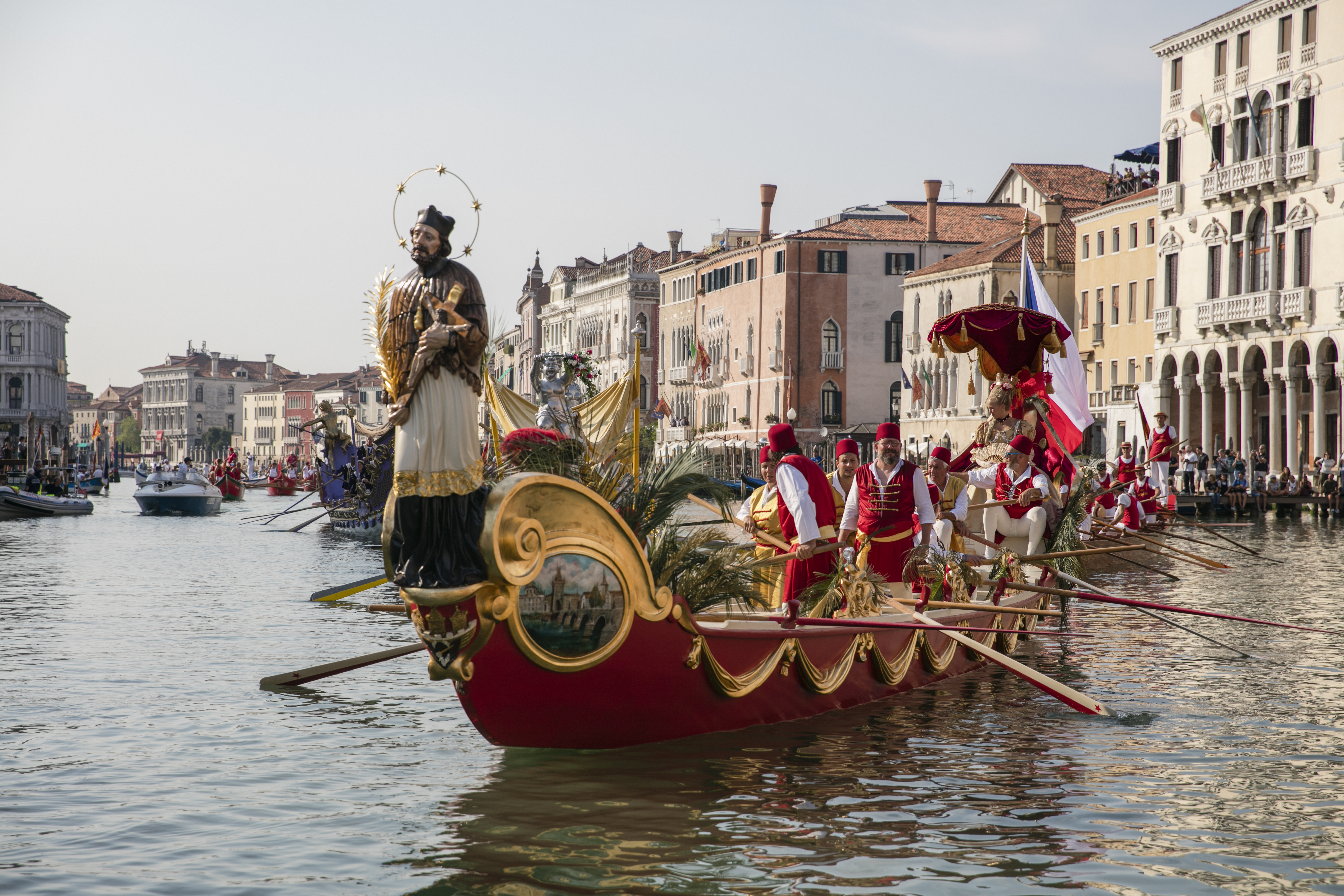 Boat Bissona Praga